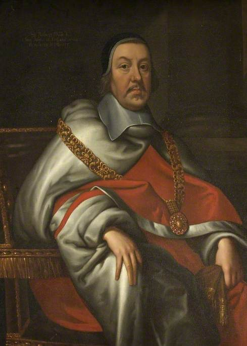 Portrait of Sir Robert Hyde, Lord Chief Justice